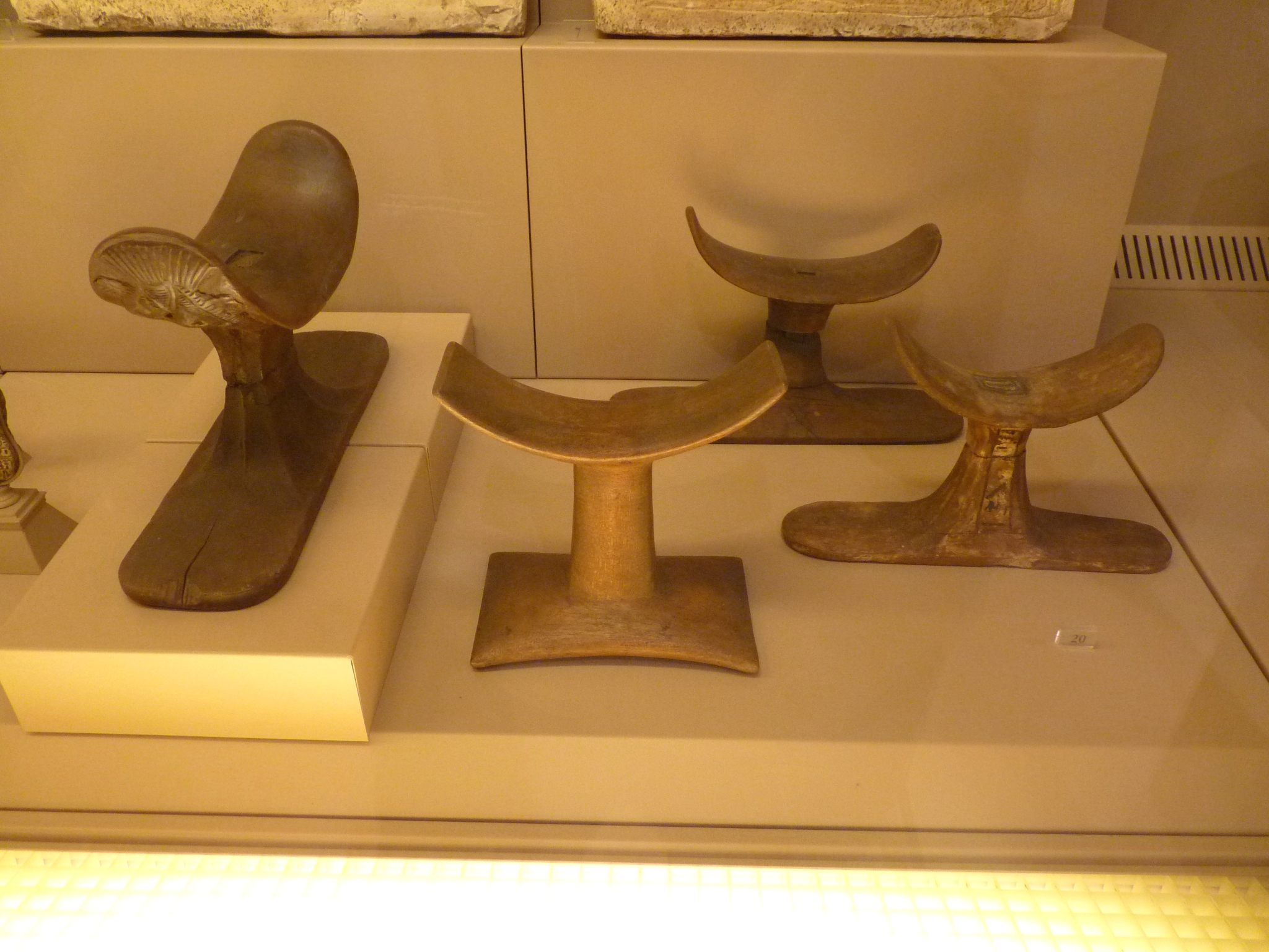 Ancient egyptian headrests. Wood, unknown provenience, New Kingdom. Archeological Museum of Bologna (Italy), KS 2027-30.